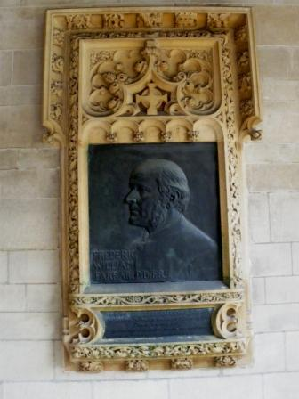 The memorial to Dean Farrar in the porch of St Margaret's Church by Westminster Abbey